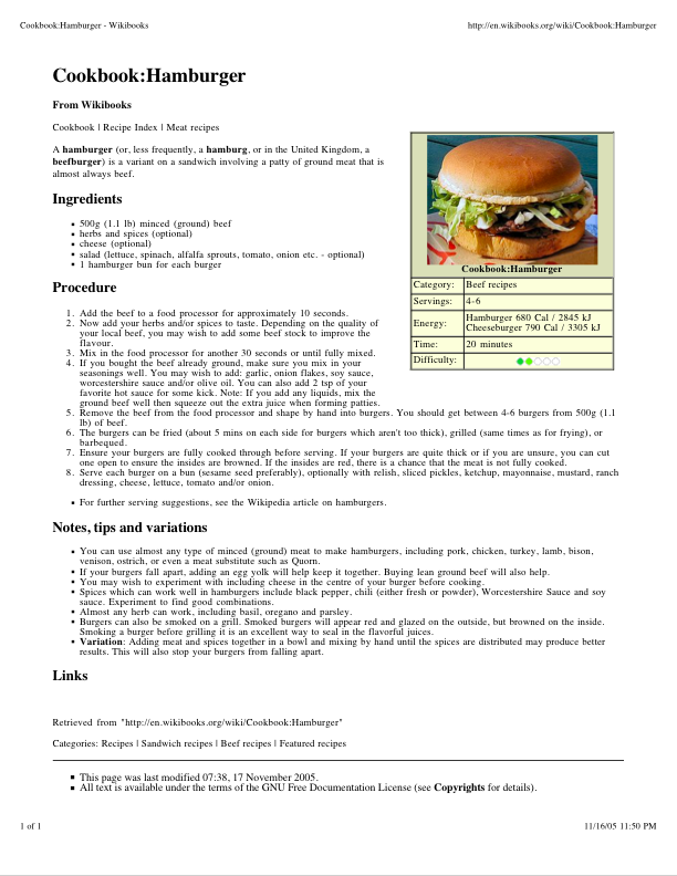 The printed version of the English language Wikibooks Cookbook recipe for a hamburger.